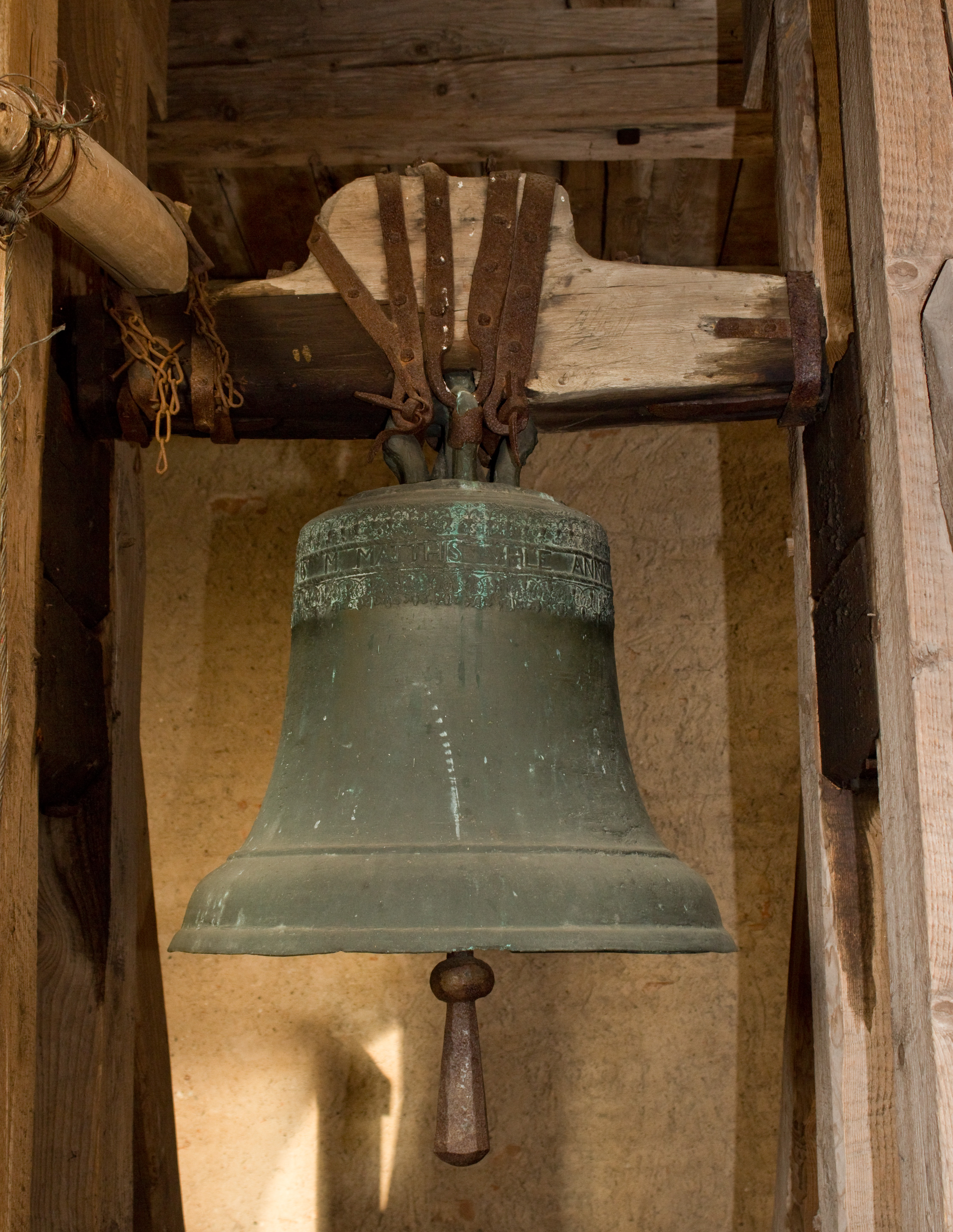 Church, Kraskowo, gmina Korsze, powiat kętrzyński, Warmian-Masurian Voivodeship